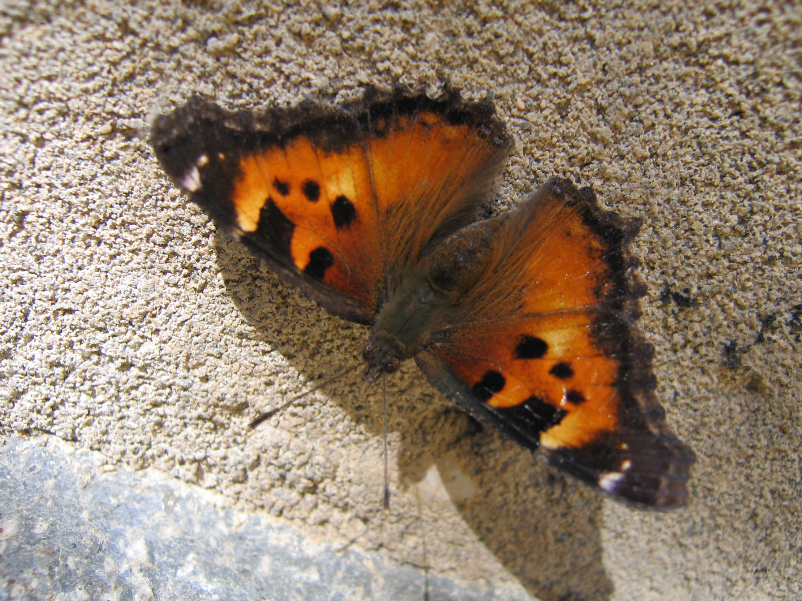 California Tortiseshell Butterfly: Nymphalis californica